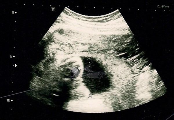 Abdominal pregnancy. Ultrasonography picture at 23 weeks showing fetus, amniotic fluid and normal fetal morphology.